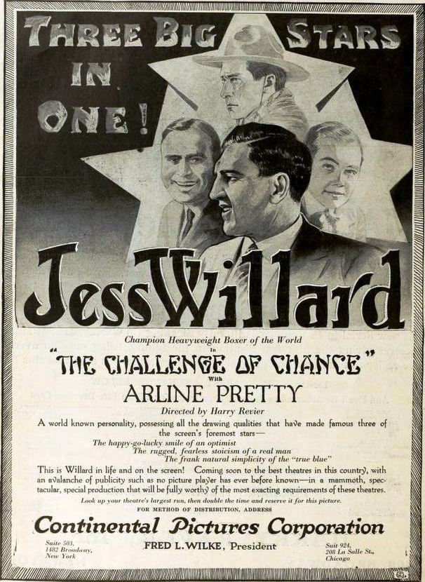 Ad for the American film The Challenge of Chance (1919) with Jess Willard, on page 1300 of the May 31, 1919 Moving Picture World.